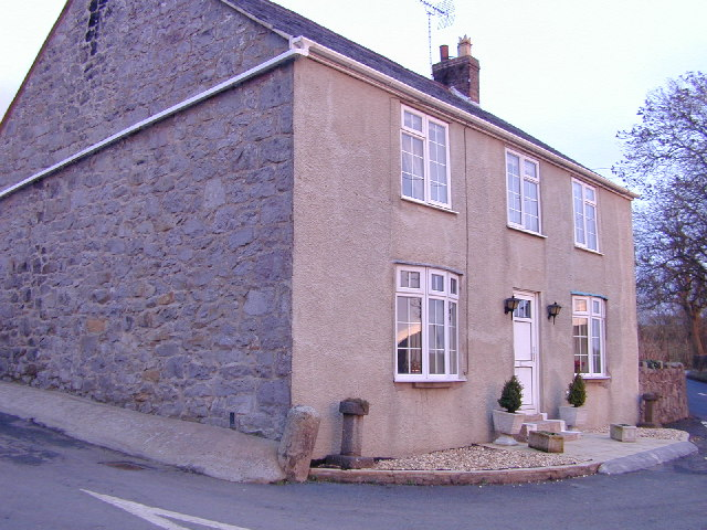 Travellers Farm, Rhydtalog. OS flush bracket G2935 visible on the end wall.